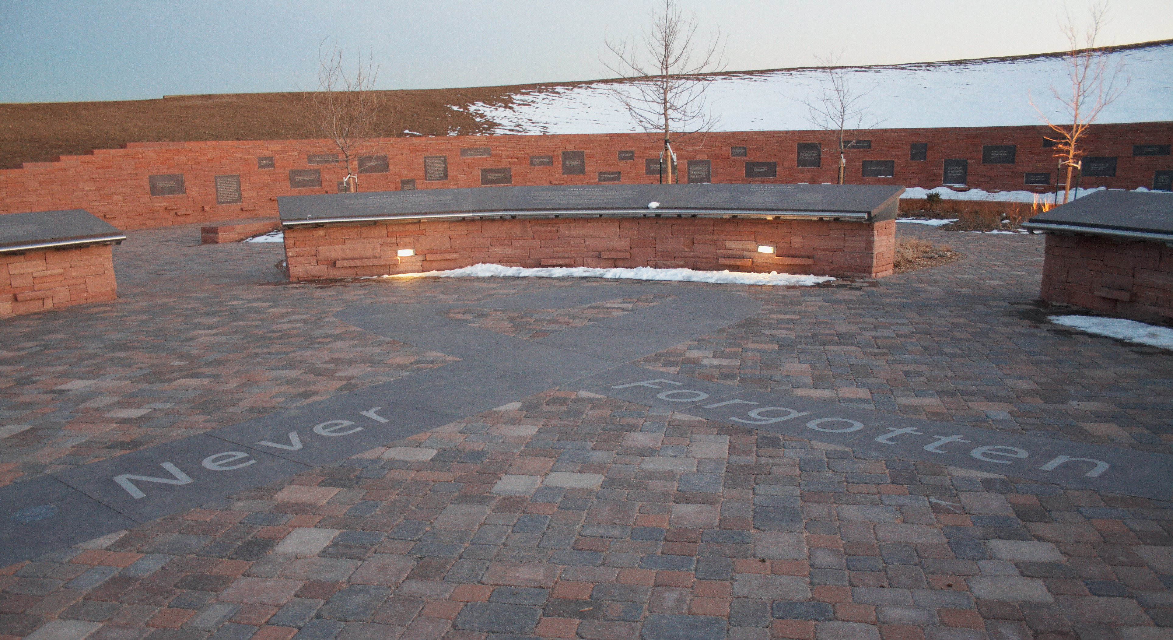 The Columbine High School Memorial, located in Clement Park in Littleton, Colorado.